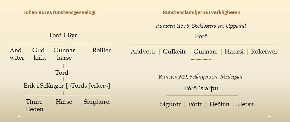 Johan Bure's genealogy based on the text on two runic stones in Sweden, compared to what the text on the stones actually says.